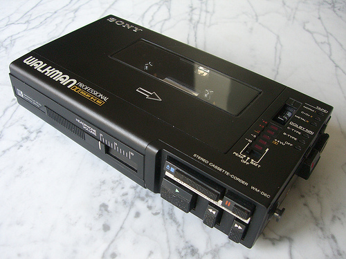 Sony WM-D6C: Probably the finest portable cassette recorder ever made. Sony didn't change the design for the almost 18 years it was in production (1984-2002).